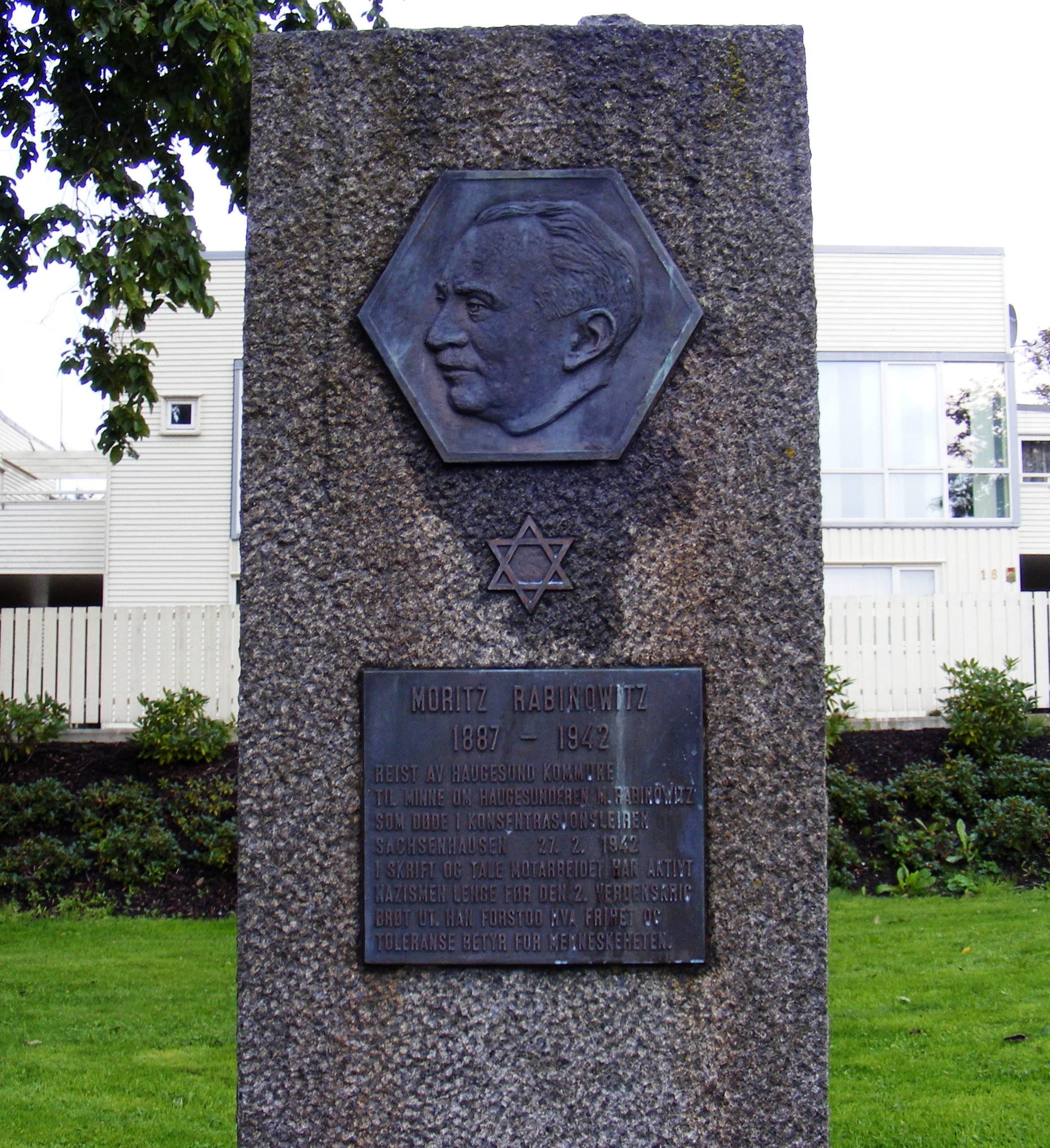 Memorial for Moritz Rabinowitz in Haugesund, Norway